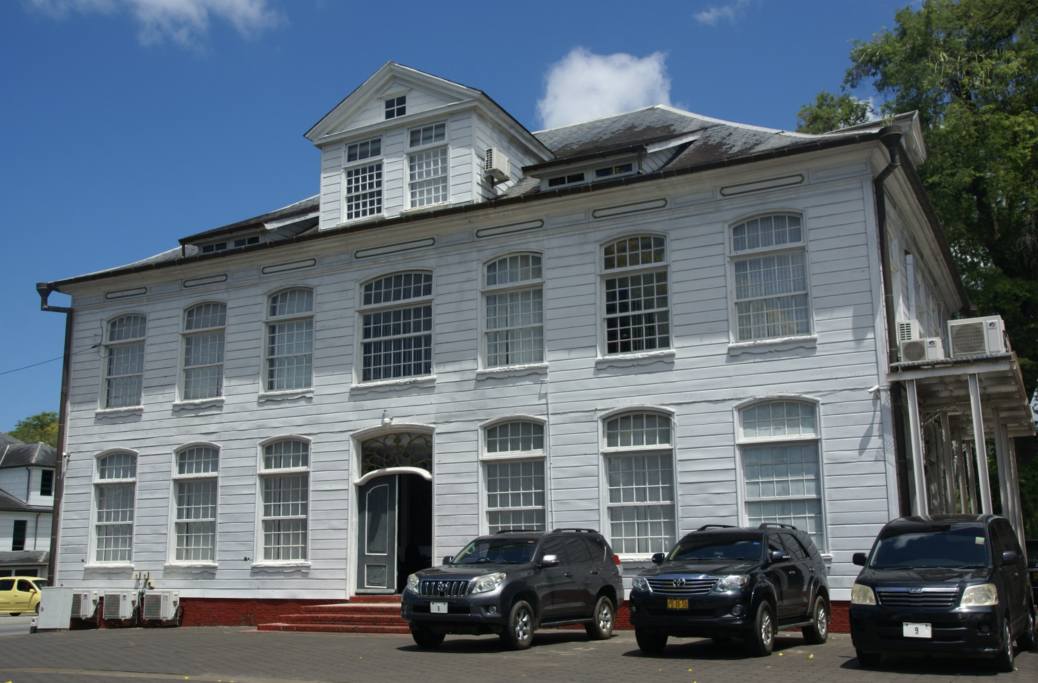 Onafhankelijkheidsplein 2, Paramaribo, Surinam. Here seen from the back, Mr. Dr. de Mirandastraat.